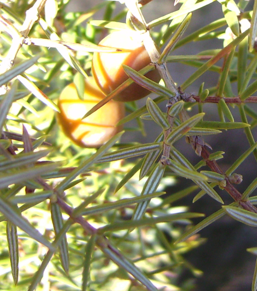 Juniperus oxycedrus, fruits in november, Castelltallat, Catalonia